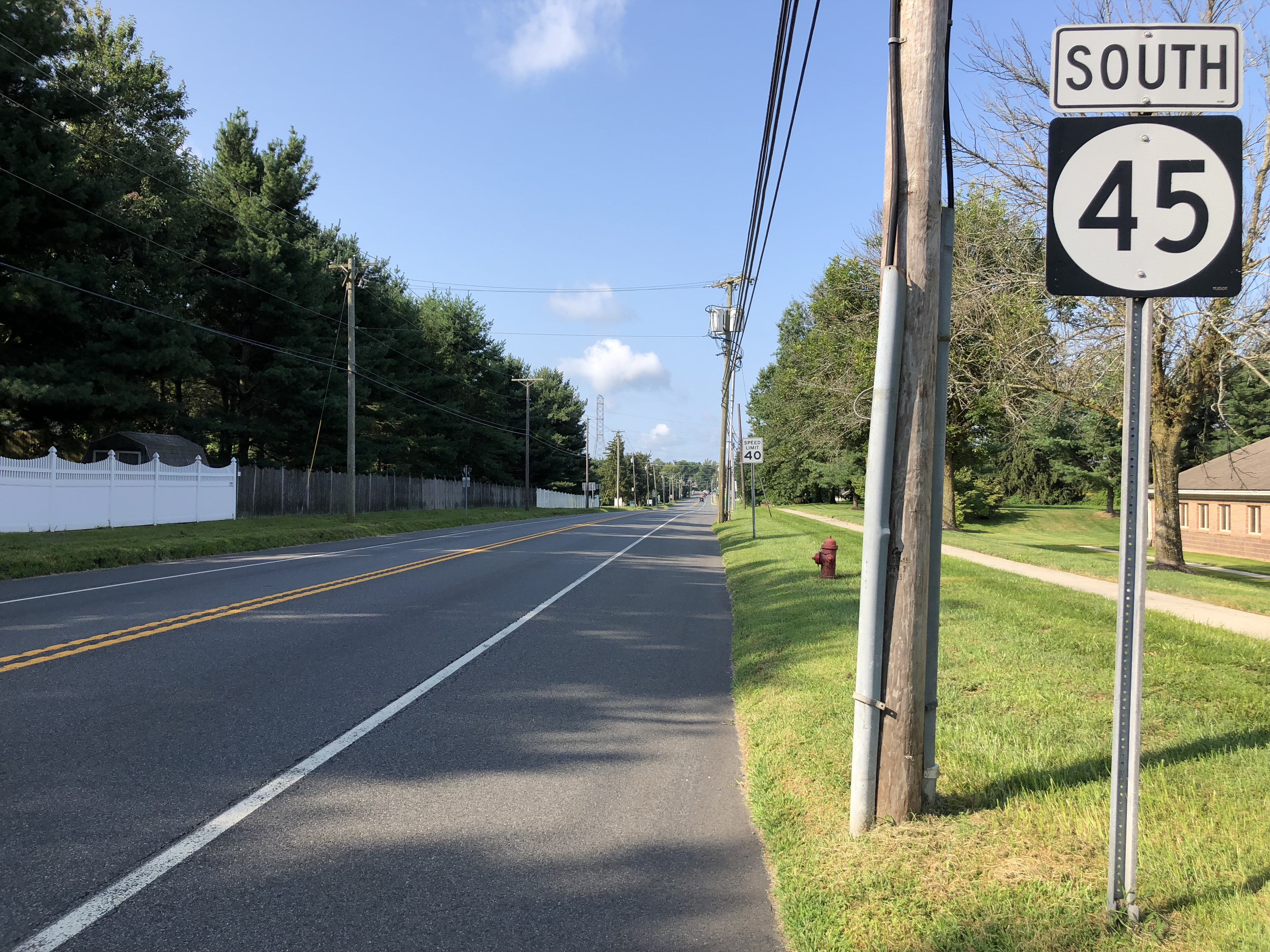 View south along New Jersey State Route 45 (North Main Street) just south of Gloucester County Route 664 (Wolfert Station Road) in Harrison Township, Gloucester County, New Jersey